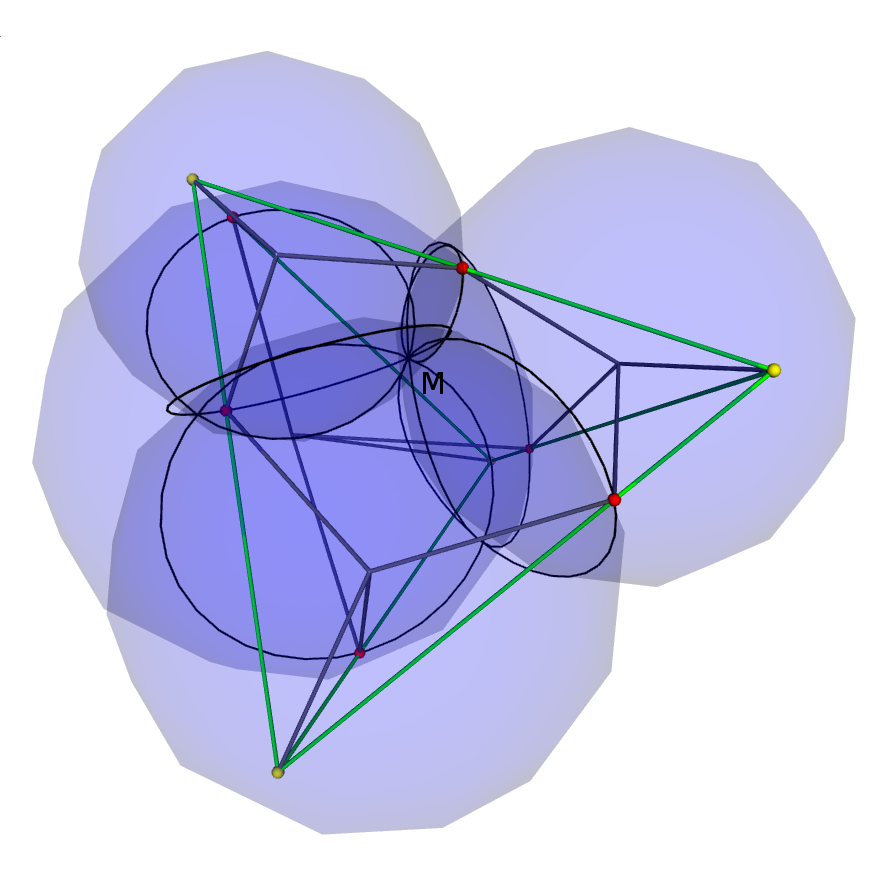 Schema of Pivot theorem in 3 dimension: the four spheres intercepts other spheres on black circles